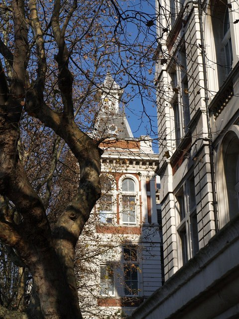 St Thomas's Hospital The hospital stands alongside the Albert Embankment (from which the photo was taken), directly opposite the Houses of Parliament.